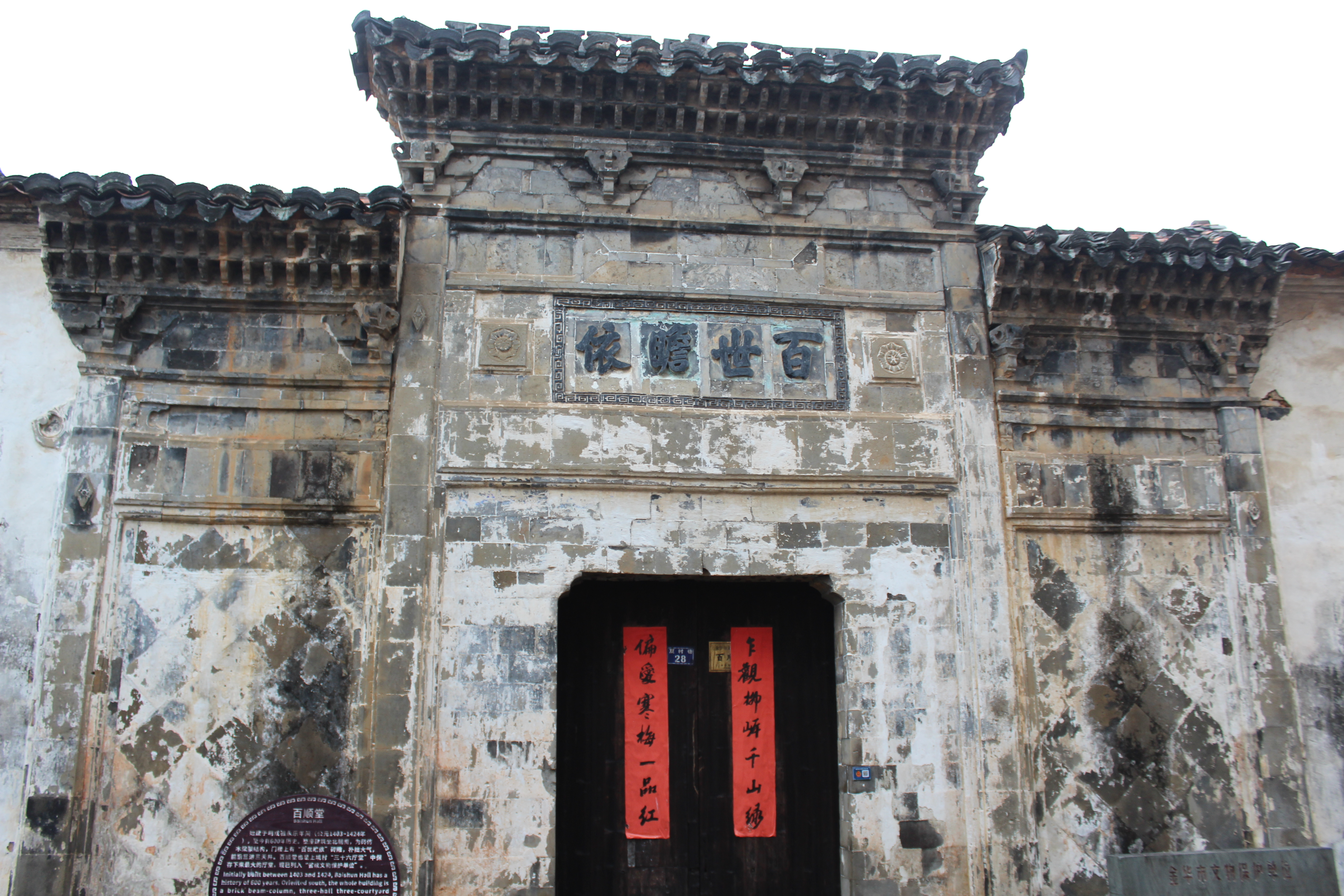 Photo of a historical building in Shangjing